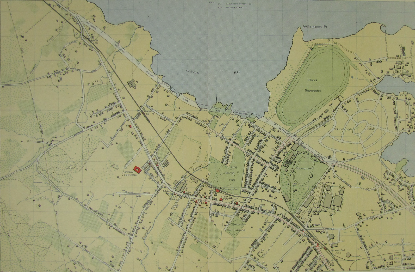 Maps 14-15 of Hobart aerial survey map (Montrose, Glenorchy, Goodwood)